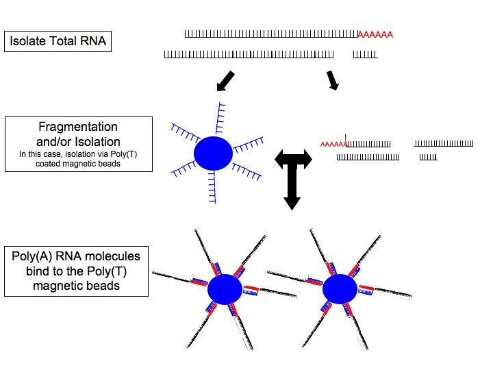 See text